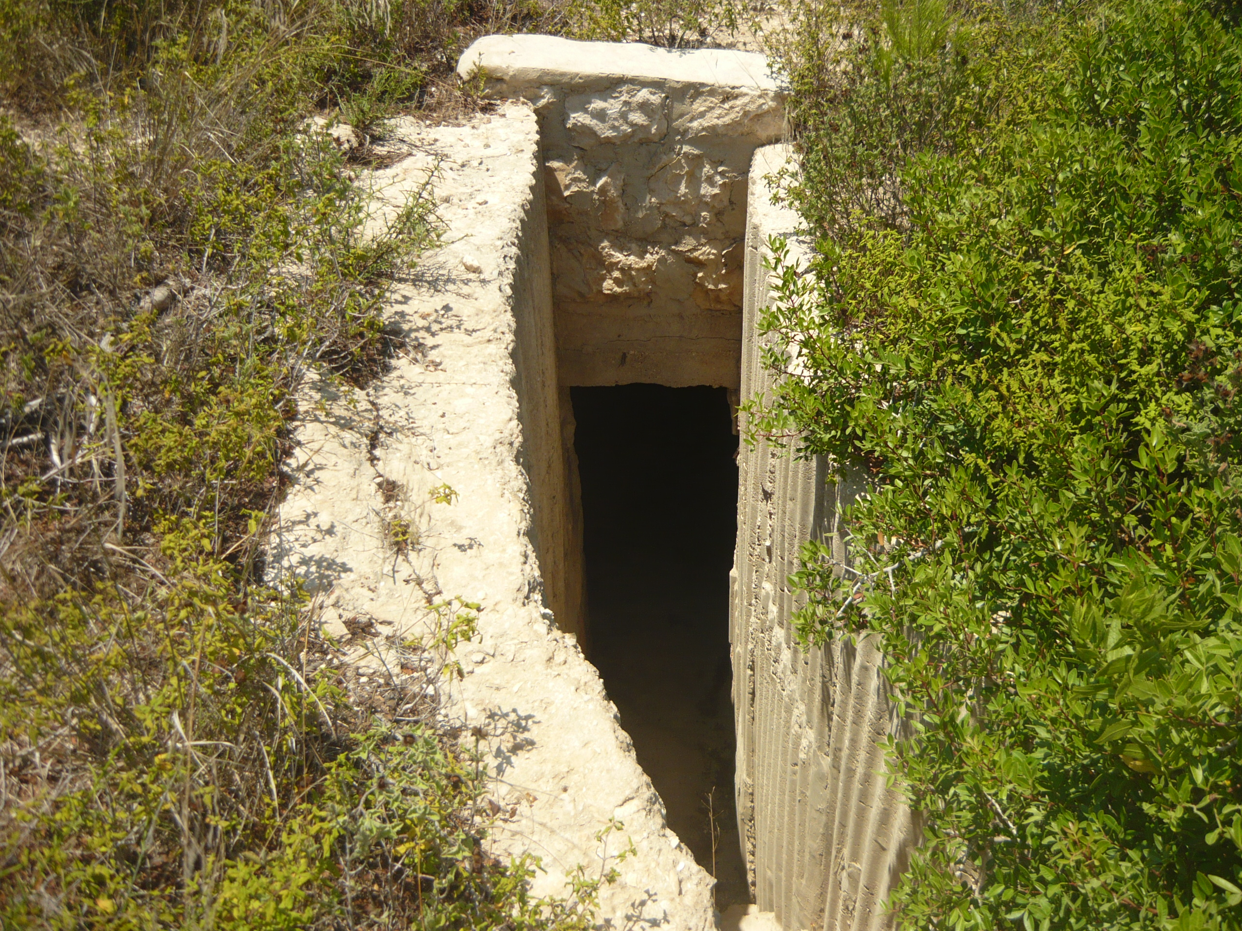 bunker on mt. Carmel בונקר על הר הכרמל שיש סברה שהיה אמור לשמש כמפקדתו של יצחק שדה במסגרת תכנית "מצדה על הכרמל"